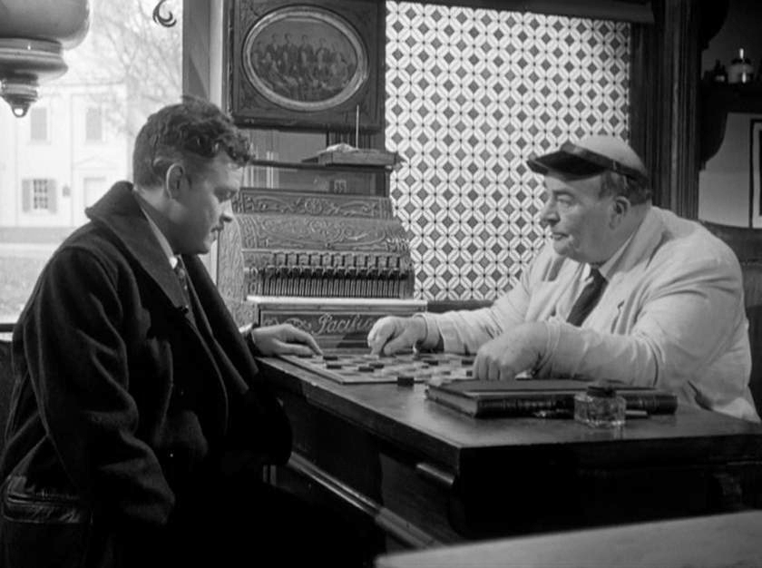 Orson Welles (left) & Billy House in The Stranger - cropped screenshot